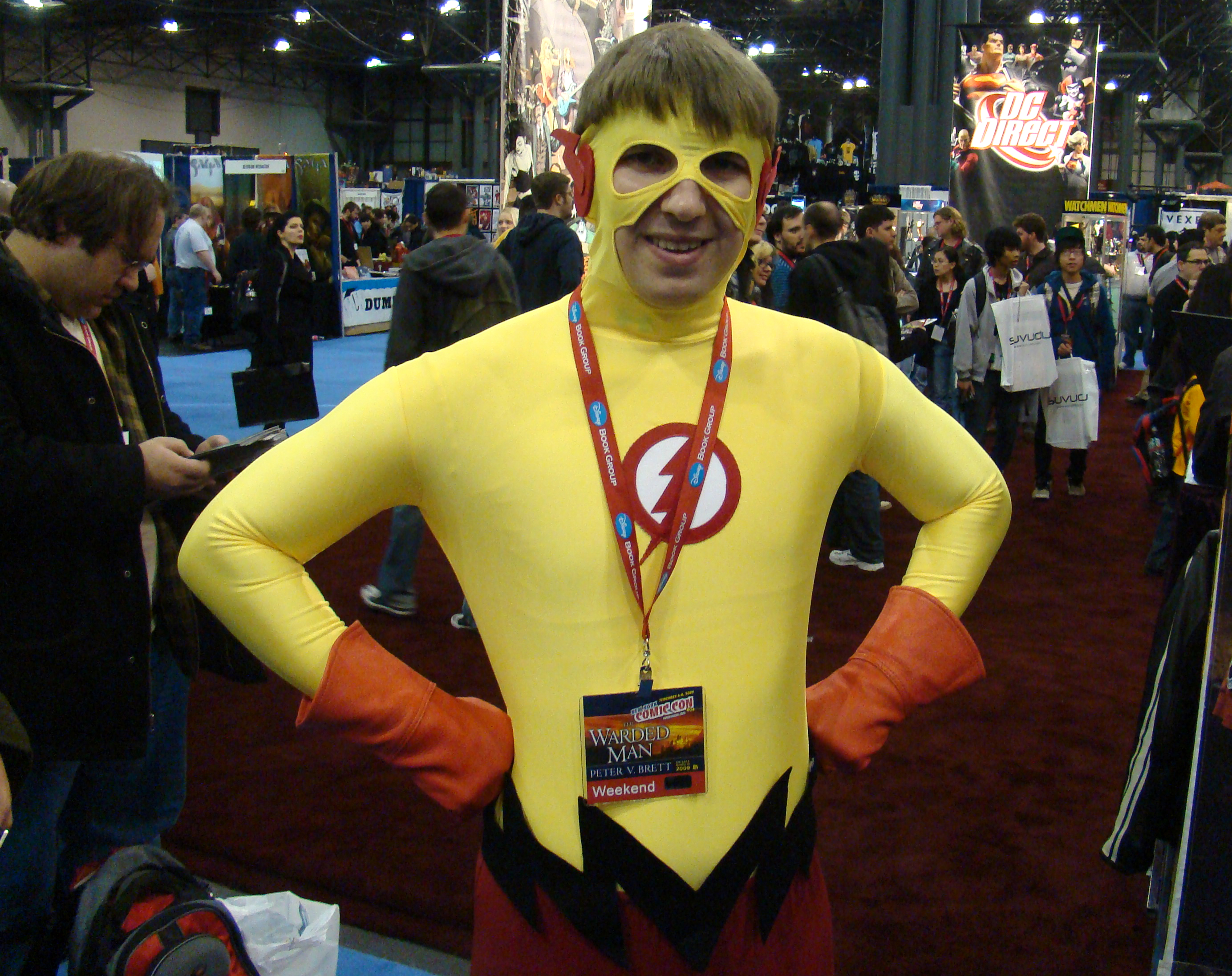 This guy made his own (awesome) Kid Flas costume. He said it took him abaout a year, off and on. He was even rocking some pretty rad Kid Flash boots! Color me impressed. New York Comic-Con, Saturday, February7th, 2009. If you see yourself in this or any of my other pictures, let me know in the comments, or by emailing me at loser: [at] istolethe [dot] tv.